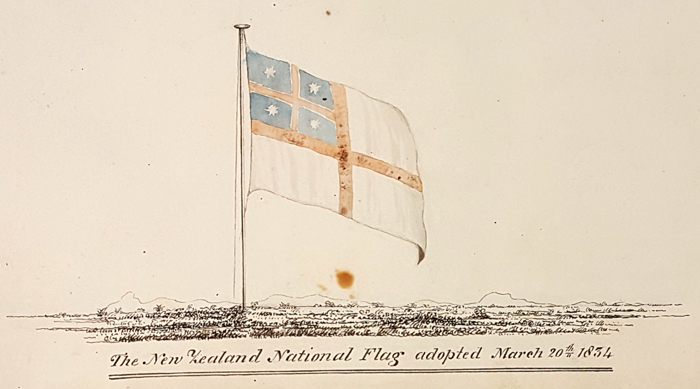 New Zealand United Tribes flag, drawing by Nicholas Charles Phillips, 1834, State Library of New South Wales A1955